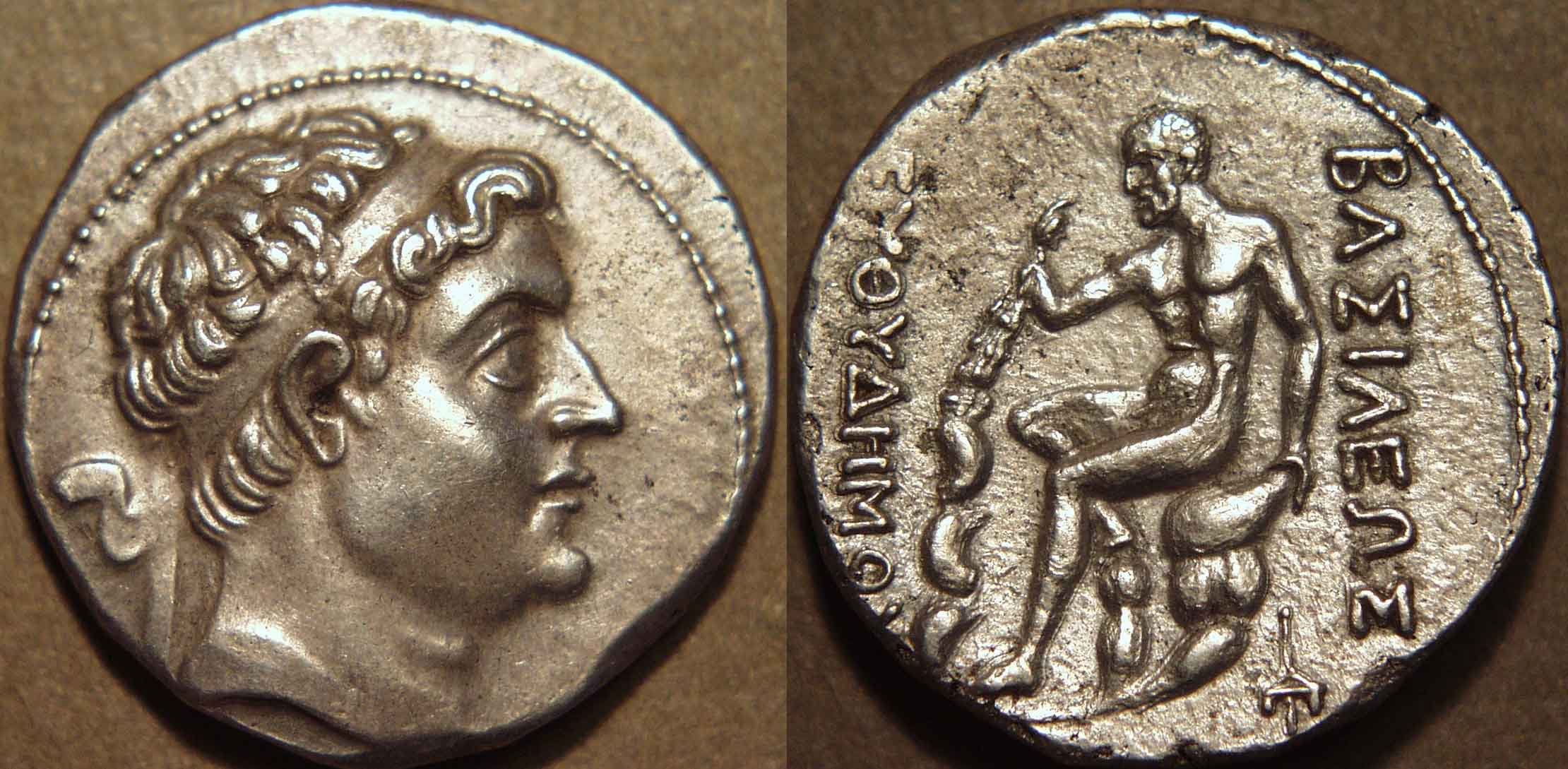 Silver tetradrachm of Euthydemus I as a youth